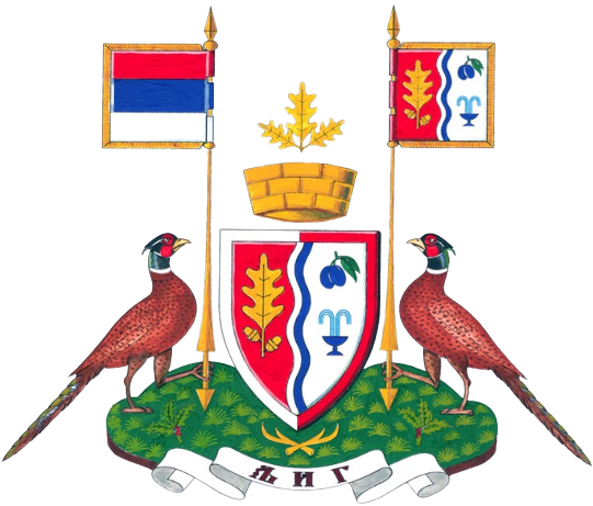 Big Coat of Arms of the city and municipality of Ljig in Serbia